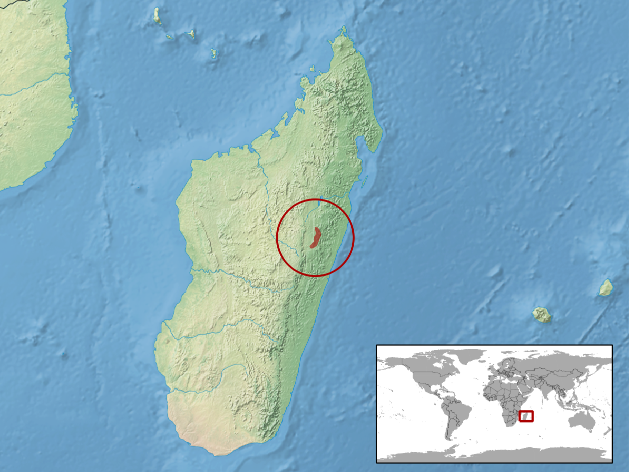 geographic distribution of Uroplatus pietschmanni (Native: Madagascar)